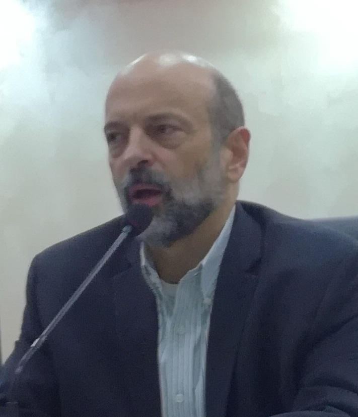 Omar Alrzaz during a panel discussion episodes in Az Zarqa